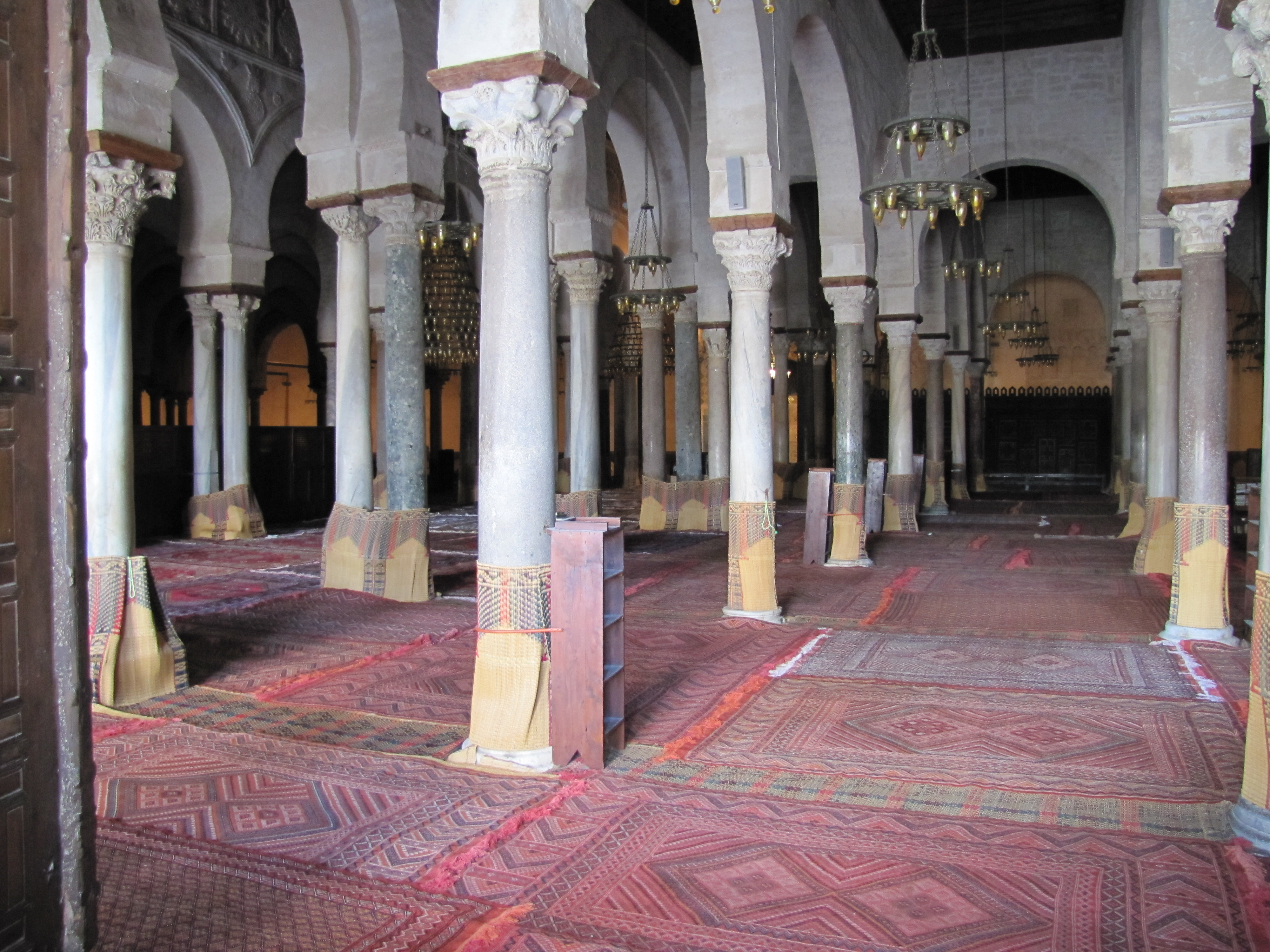 View of some of the secondary naves of the prayer hall of the Great Mosque of Kairouan (also called Mosque of Uqba), in Tunisia.